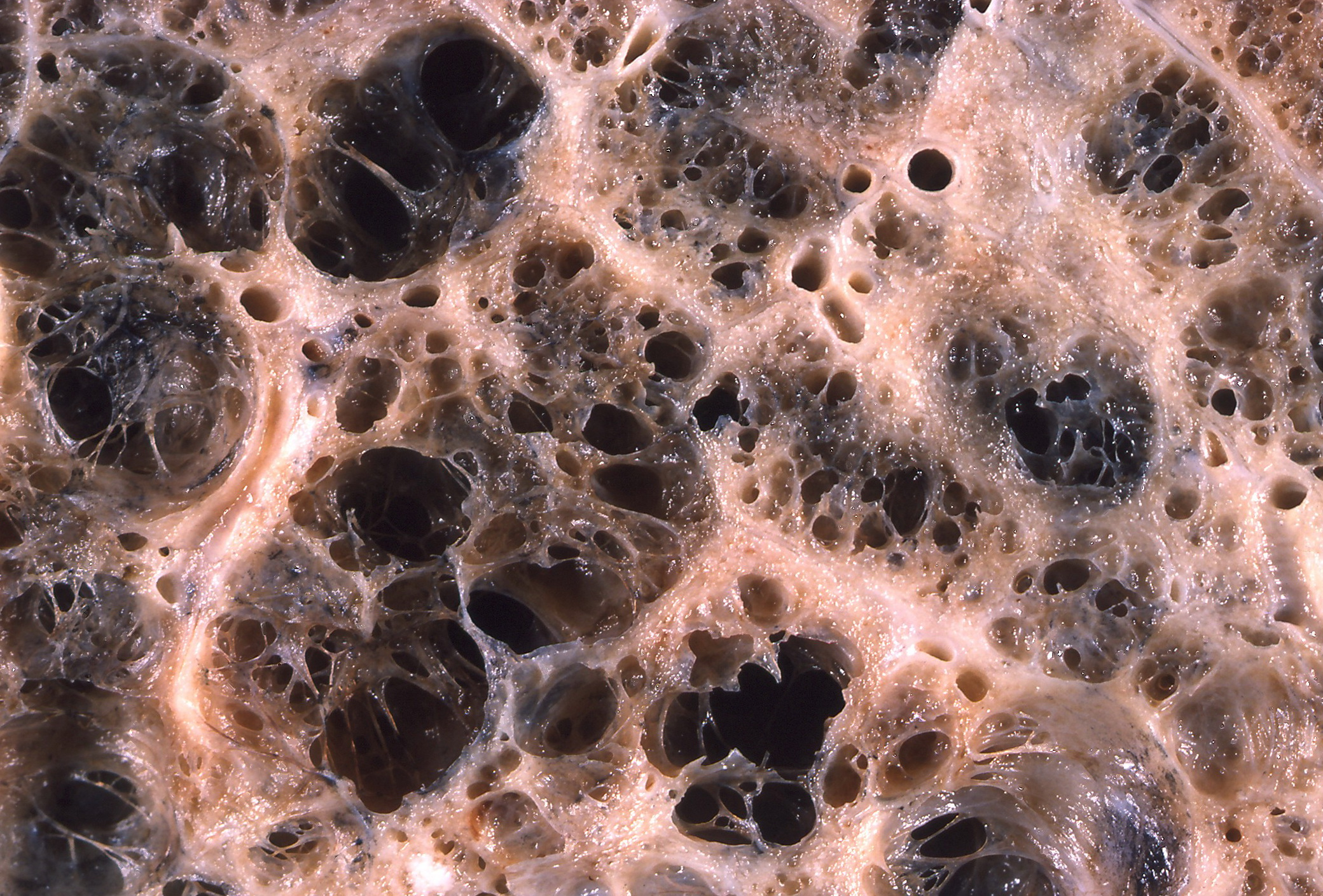 Advanced centrilobular emphysema with total involvement of secondary lung lobules on the left and centrilobular localization still apparent on the right.